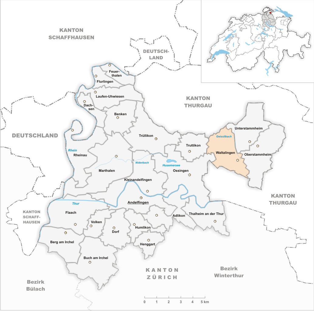 Municipality Waltalingen